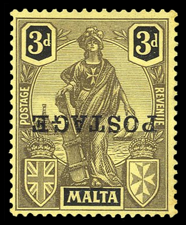 Malta 1926 Melita Postage 3d black on yellow stamp with overprint inverted in mint condition